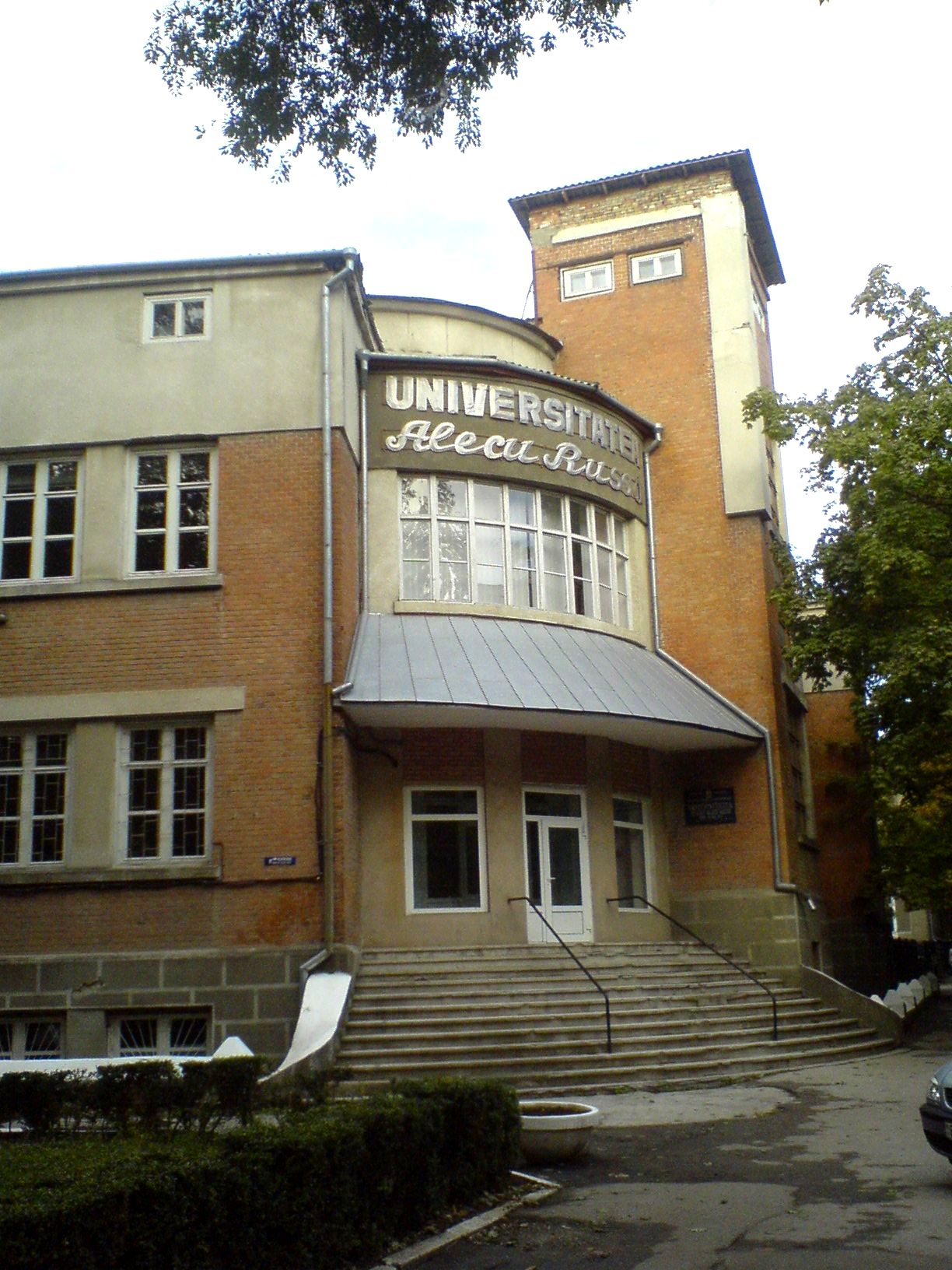 Bălţi State University "Alecu Russo"